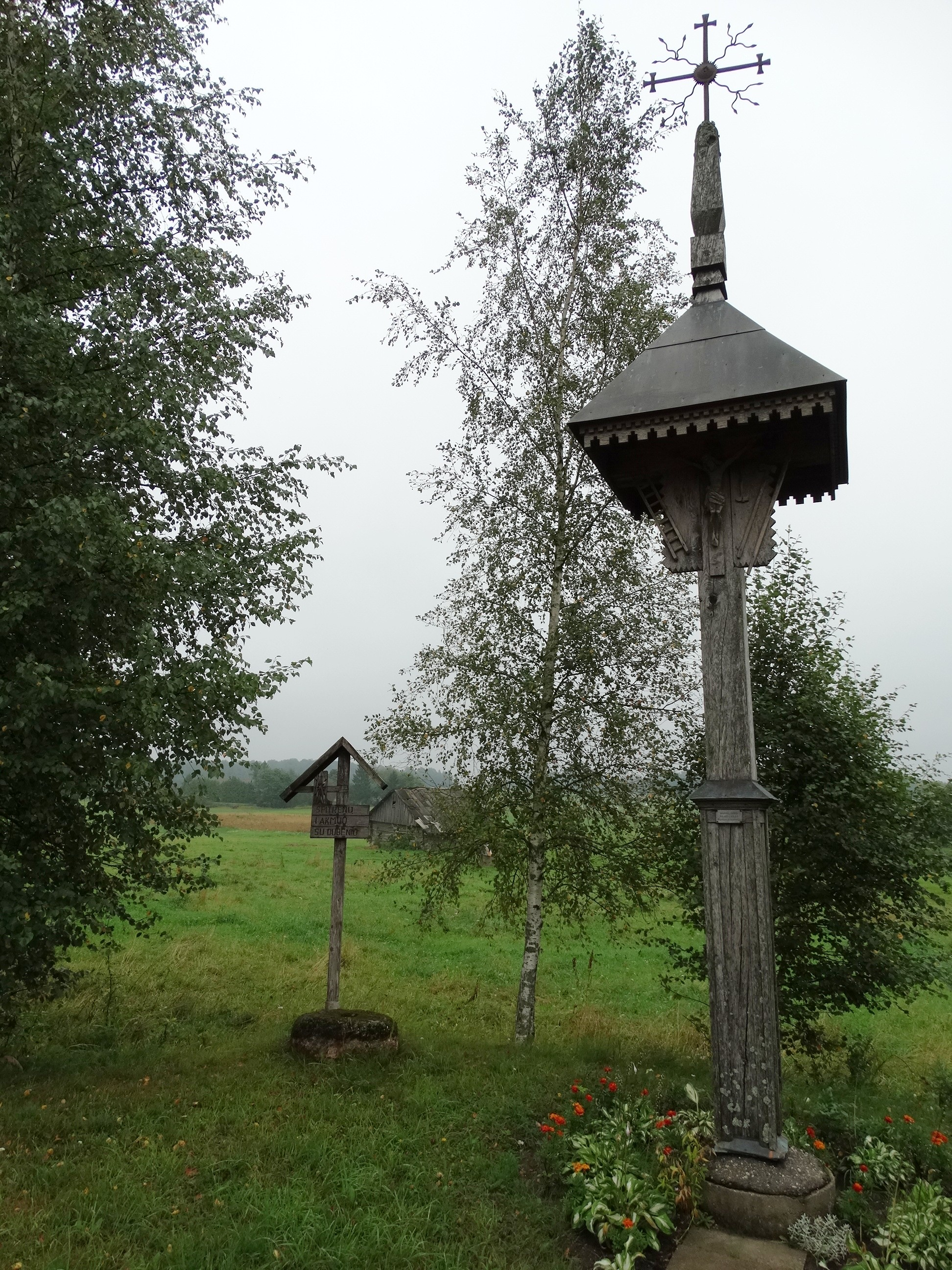 Mythological stone, Spitrėnai, Utena District, Lithuania